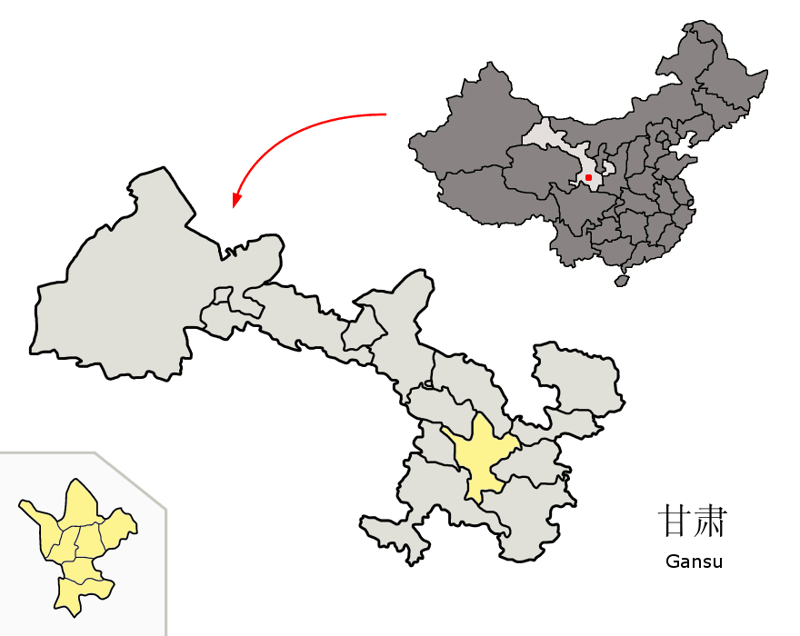 Location of Dingxi Prefecture (yellow) within Gansu province of China Map drawn in october 2007 using various sources, mainly : Gansu province administrative regions GIS data: 1:1M, County level, 1990 Gansu Counties map from